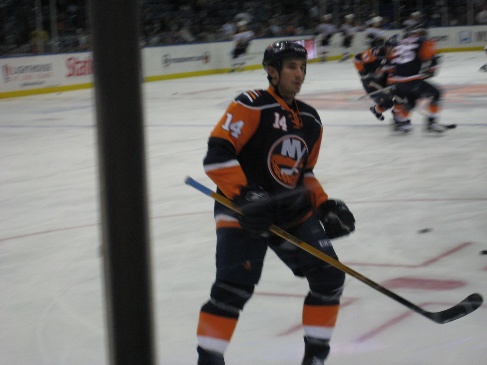 Chris Campoli during pre-game warmups before the Islanders vs. Bruins game on 11/24/07 at Nassau Coliseum.